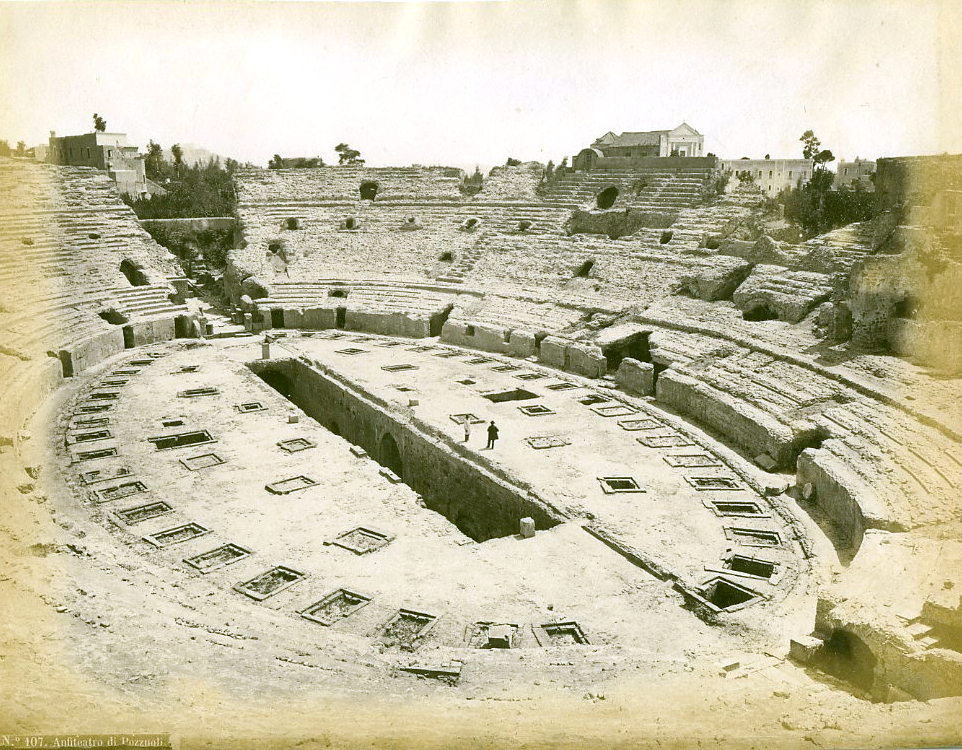 Roberto Rive (18?-1889), "The Amphitheatre at Pozzuoli". Catalogue # 107.